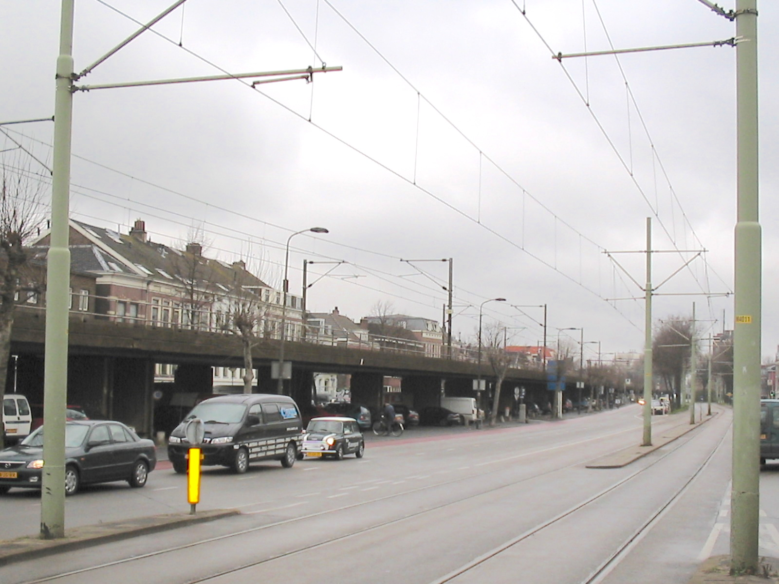 railway viaduct in Delft